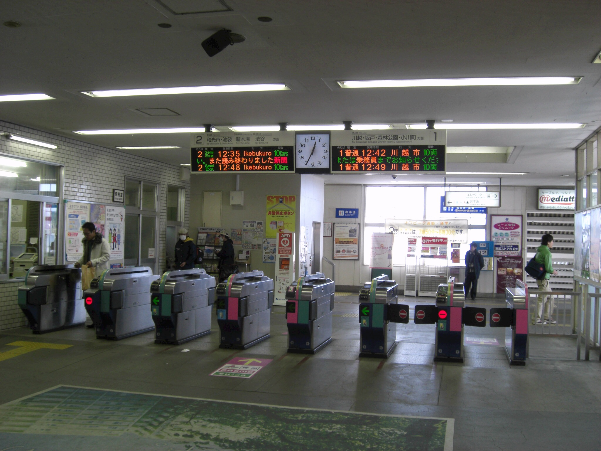 The ticket barriers at Tsuruse Station on the Tobu Tojo Line in Saitama Prefecture, Japan